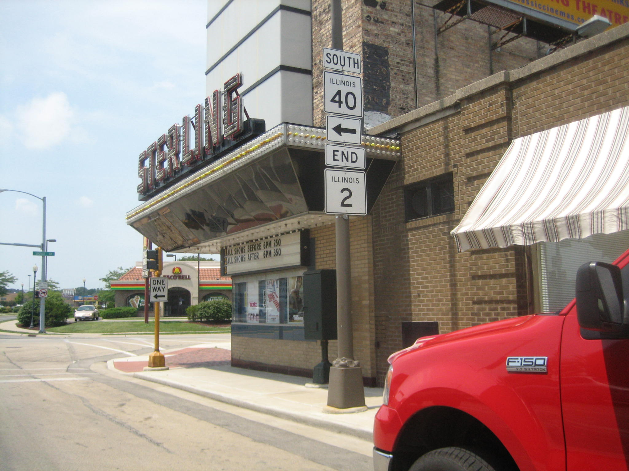 Sterling Theater in Sterling, Illinois, USA.